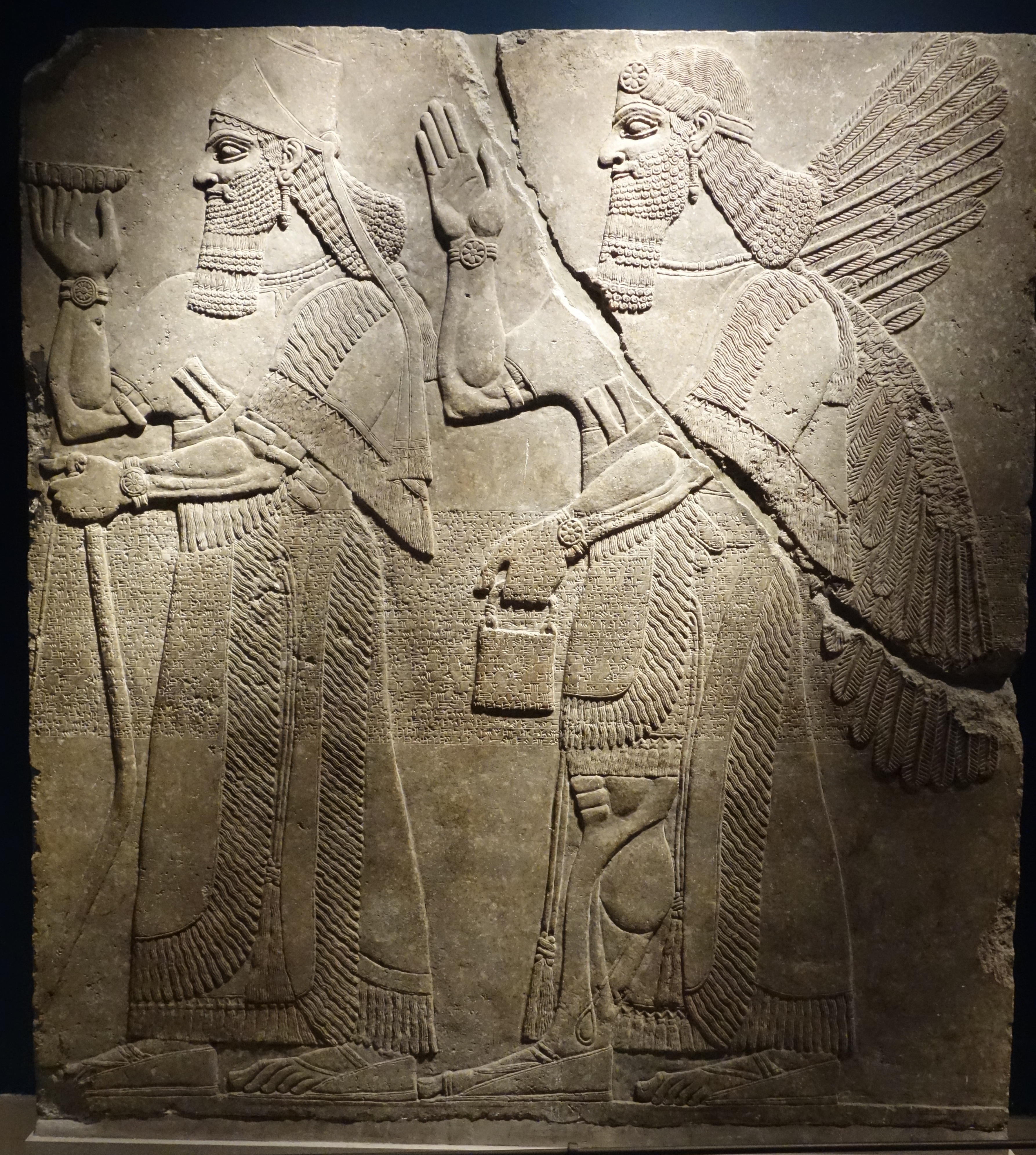 Exhibit in the Brooklyn Museum - Brooklyn, New York, USA. This artwork is in the public domain because the artist died more than 70 years ago.